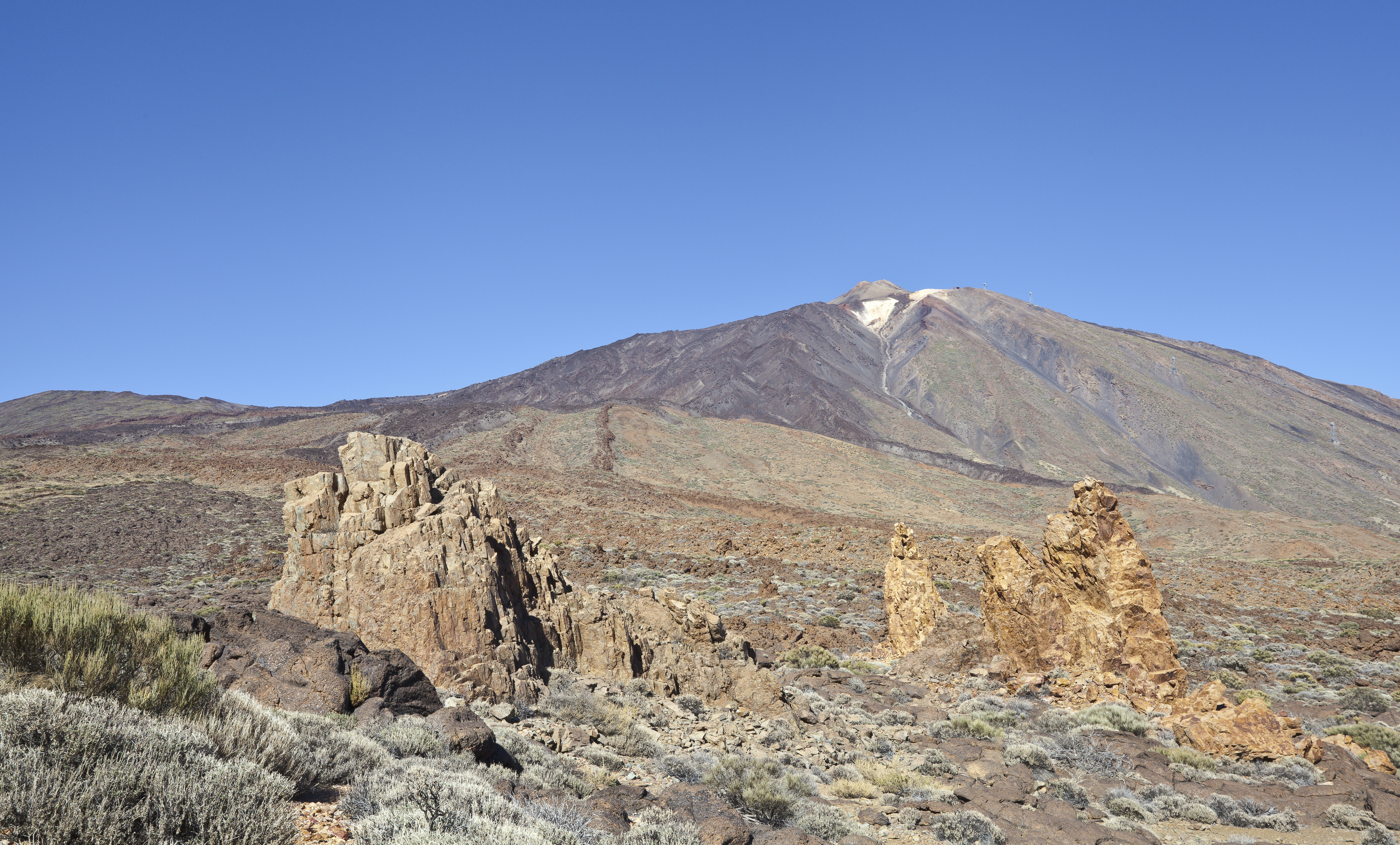 Roques de García, Teide National Park, Santa Cruz de Tenerife, Spain